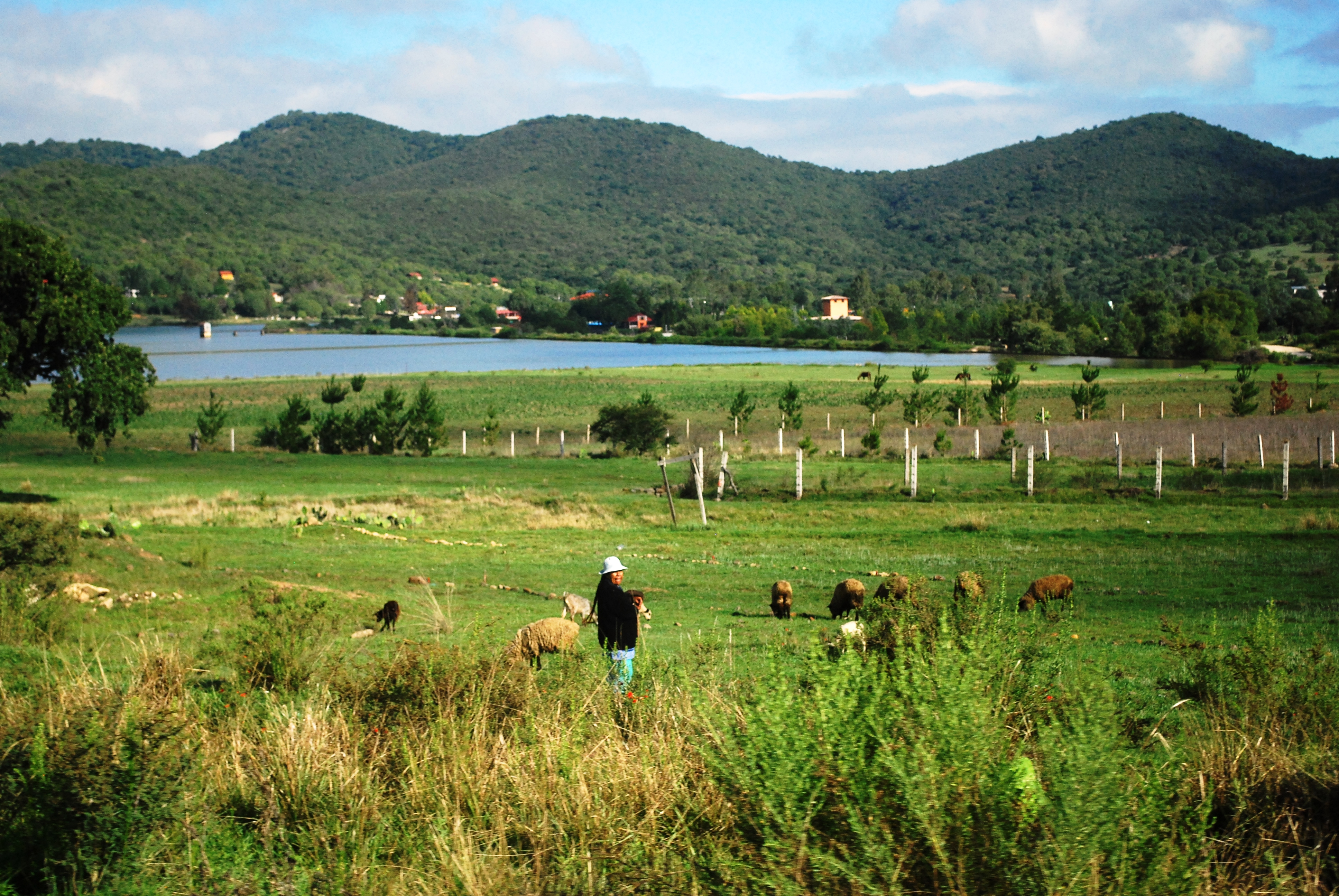 Womann with sheep by the San Antonio Dam in Huasca de Ocampo, Hidalgo, Mexico